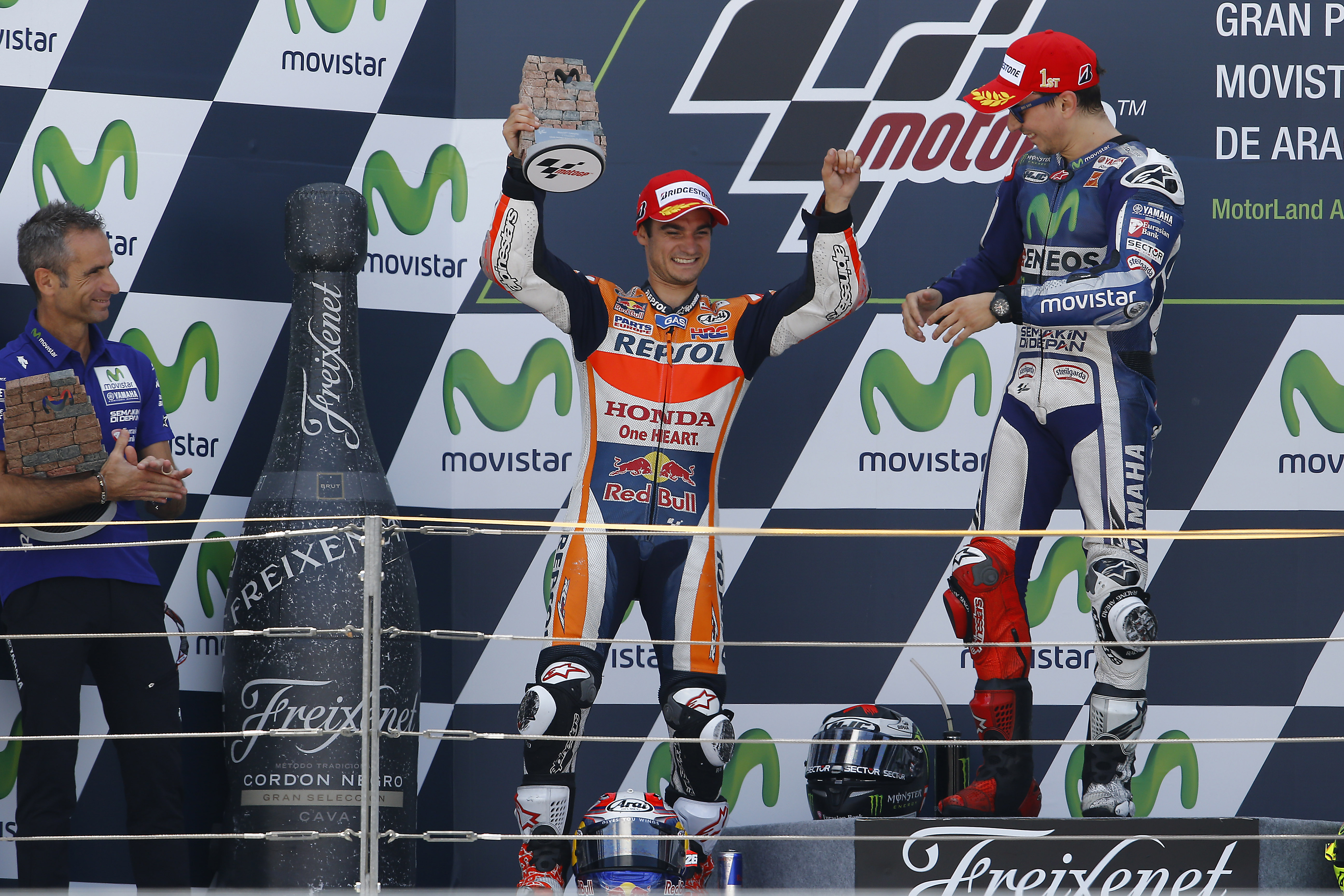 Dani Pedrosa (holding his trophy) and Jorge Lorenzo, celebrating on the podium after finishing in second and first place at the 2015 Aragón Grand Prix.